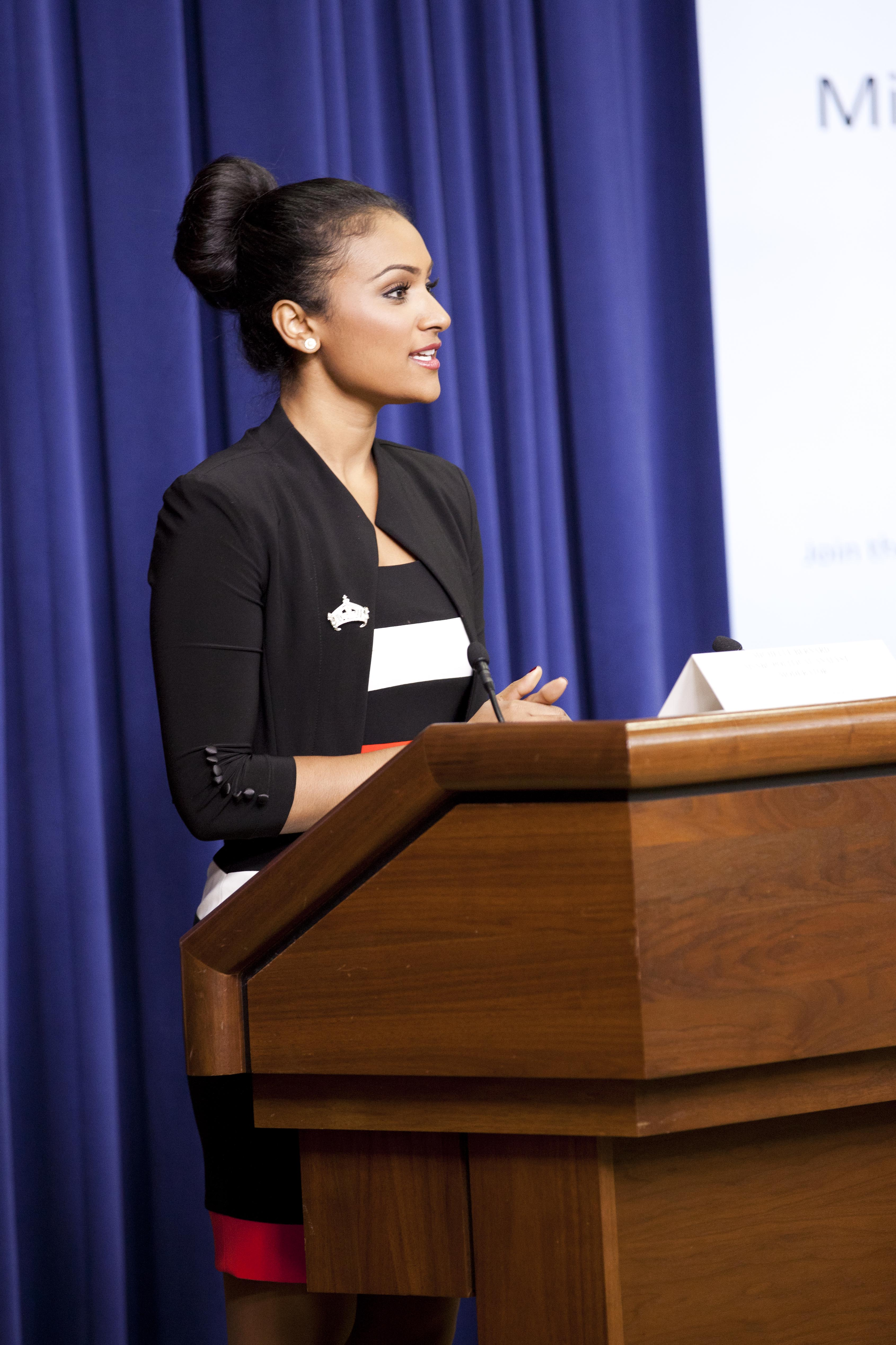 Nina Davuluri at White House Forum on Minorities in Energy 2013